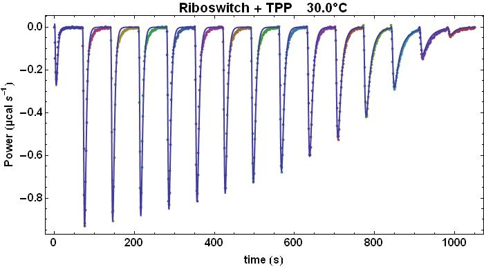 Titration curve obtained upon binding of TPP on a RNA riboswitch. Two consecutive steps (TPP binding and RNA folding), and not only the overall binding step, could be resolved thermodynamically and kinetically.